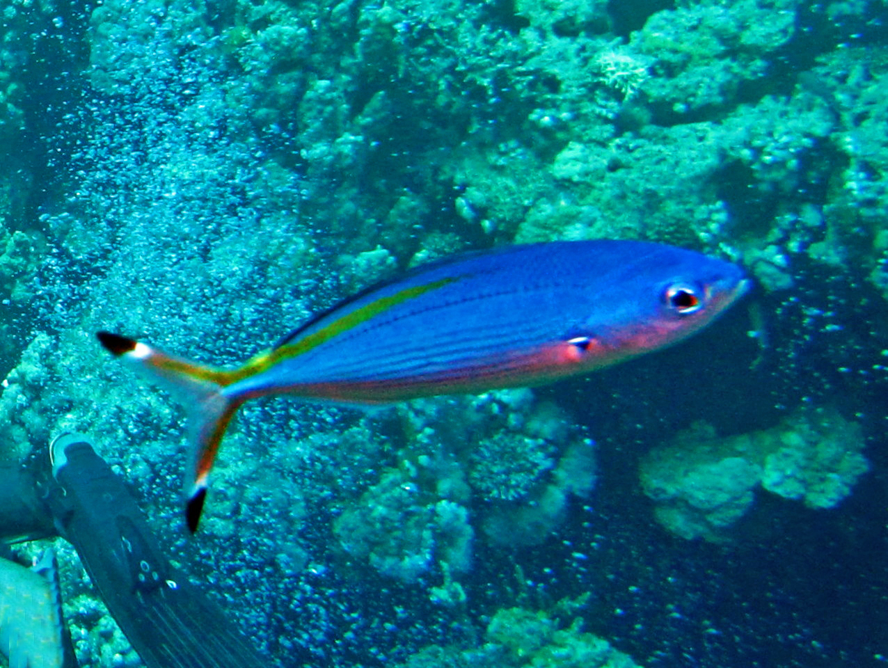 Caesio suevica. Sharm el Sheikh, Egypt